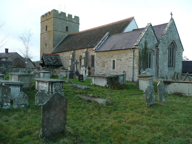 St. Swithin's church, Clunbury A fine sandstone village church in the shadow - literally - of Clunbury Hill.